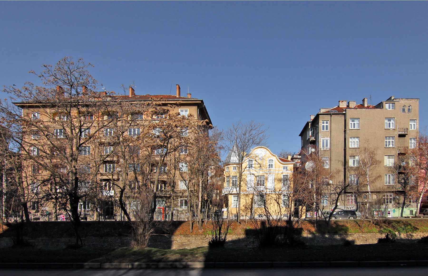 Hristo and Evlogi Georgievi Boulevard in Sofiq, Bulgaria